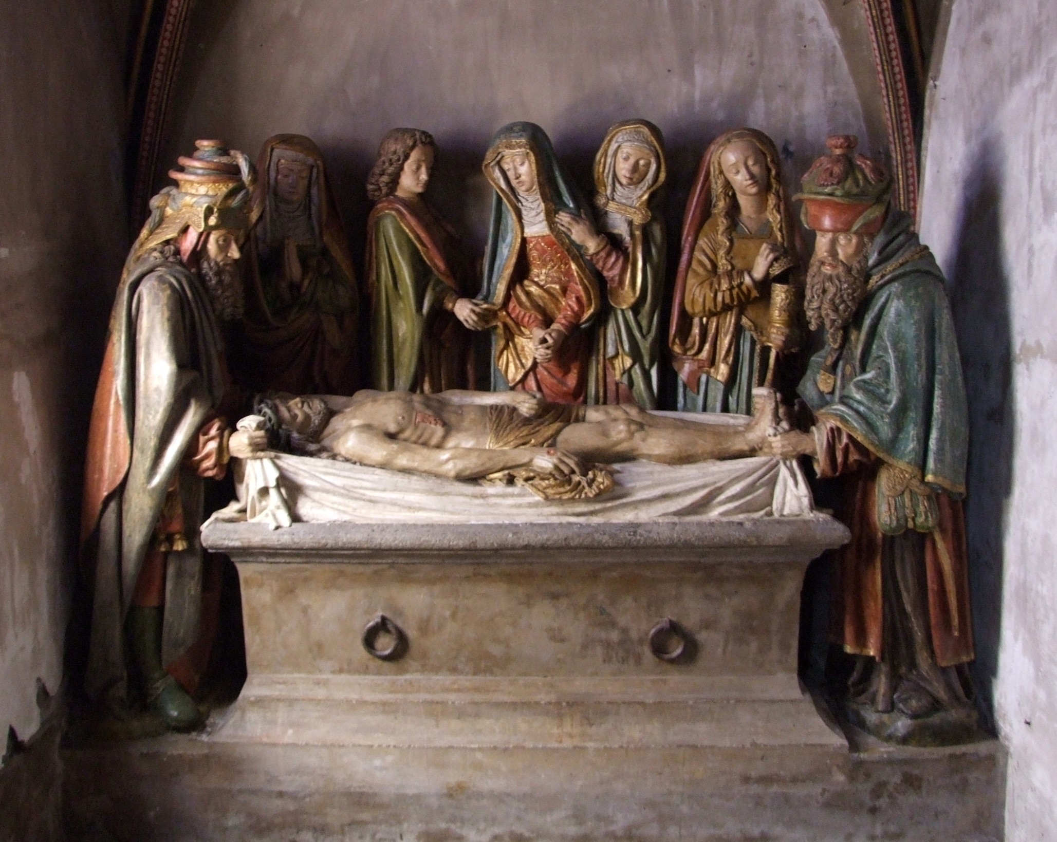 Salers, Cantal, FRANCE